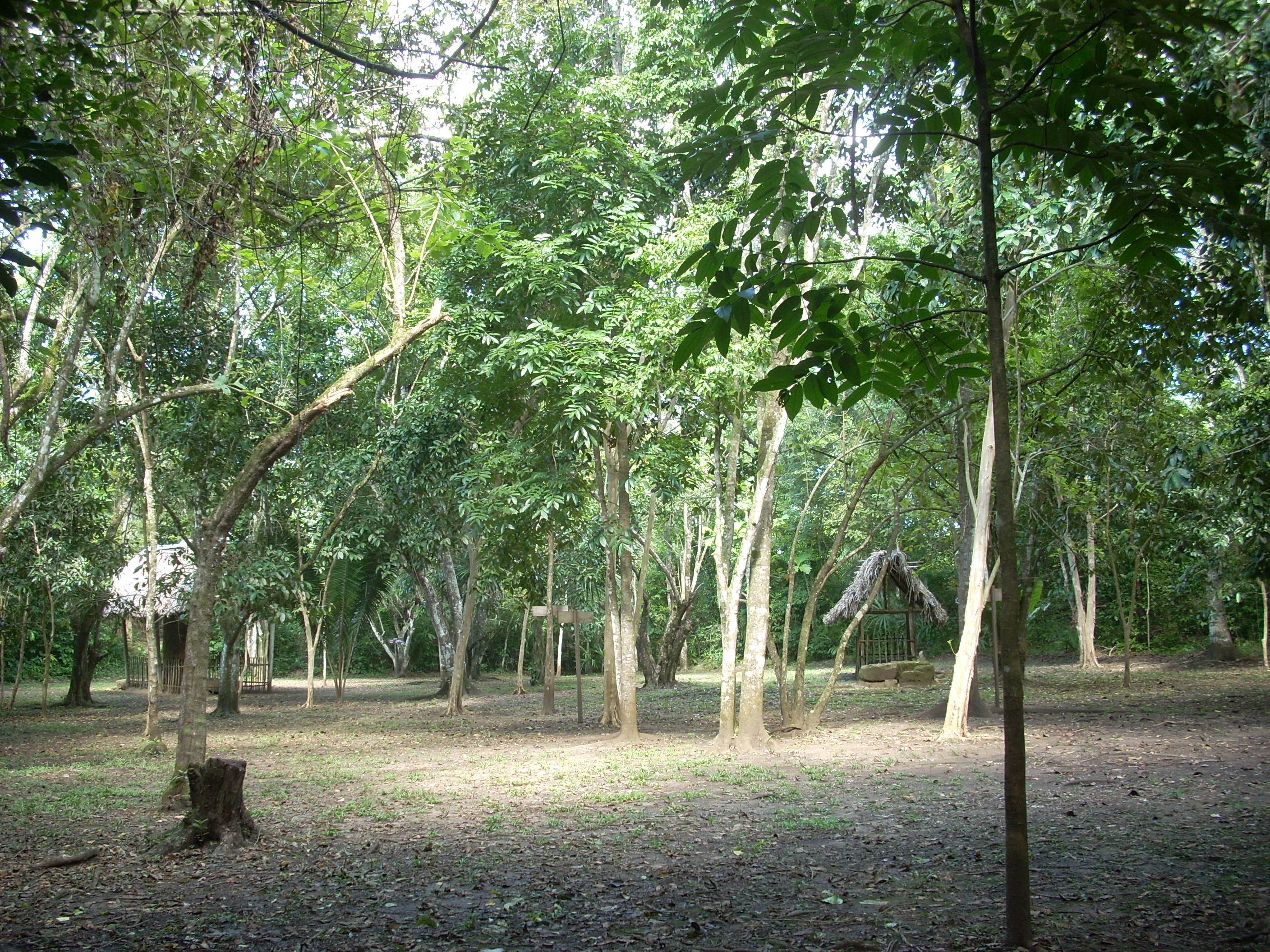 The East Plaza of El Chal archaeological site, Dolores, Peten, Guatemala.